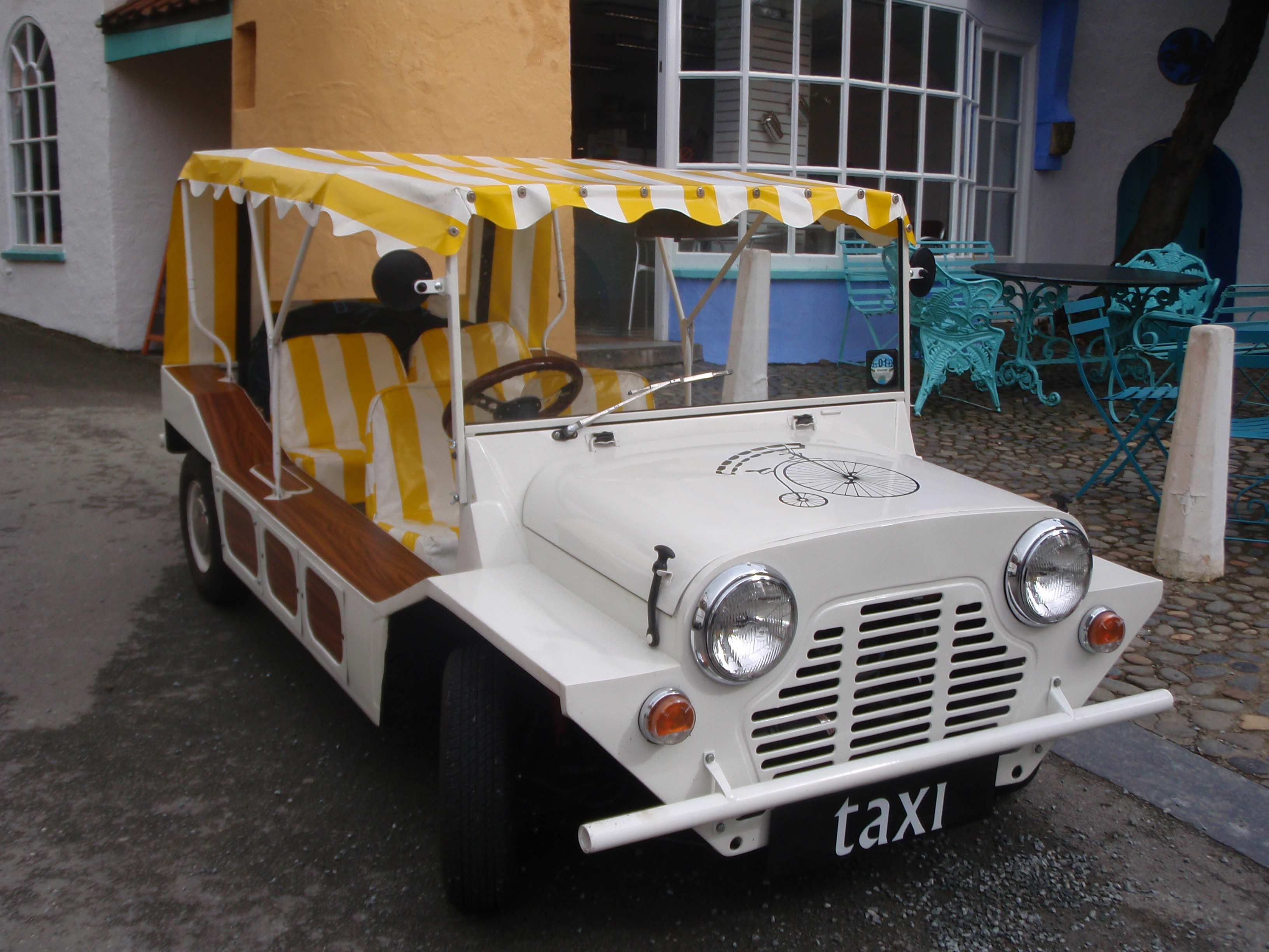 Mini Moke from the TV series The Prisoner in Portmeirion, Gwynedd Wales.